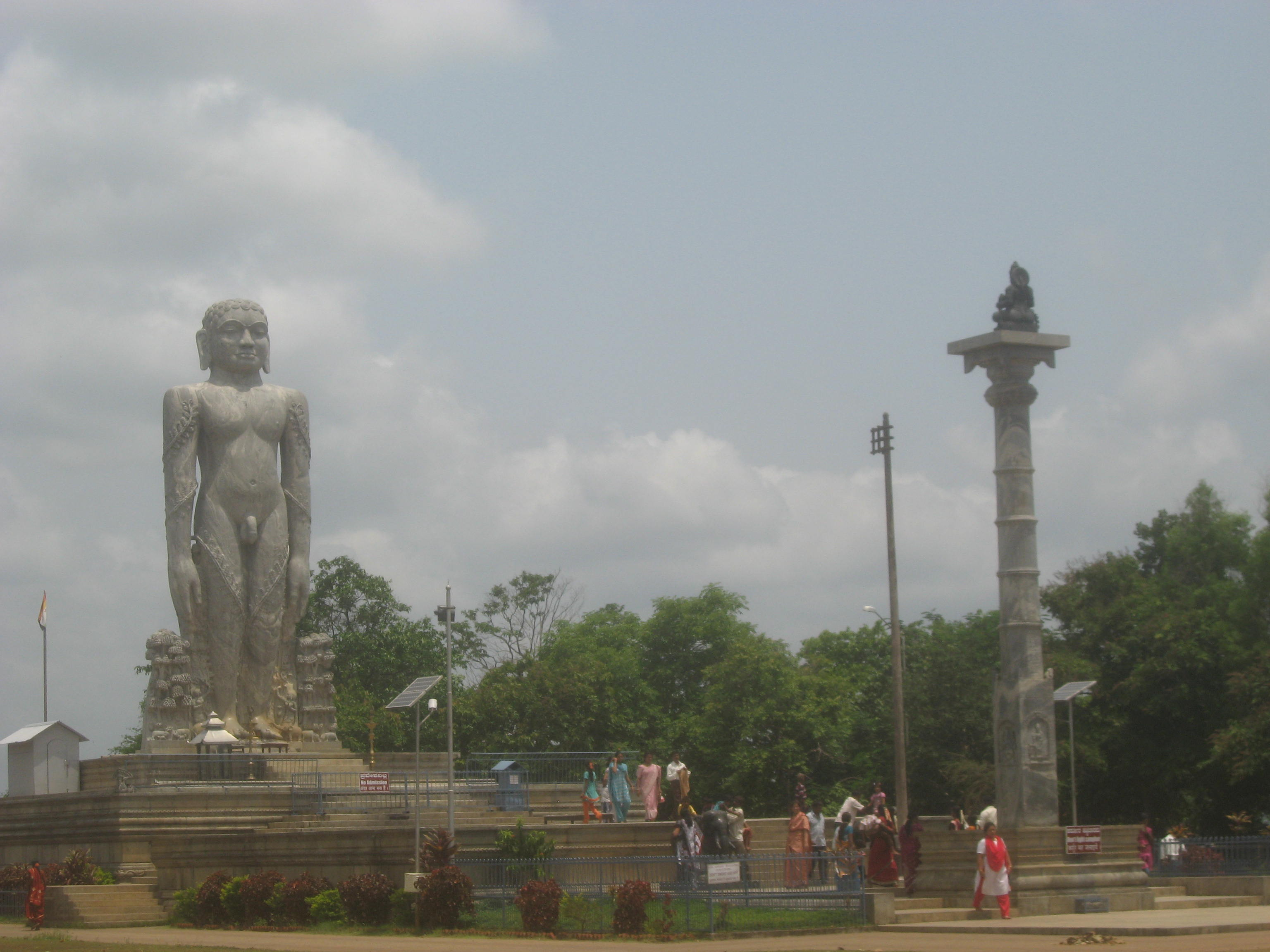 Jaina statue of Gomateswara